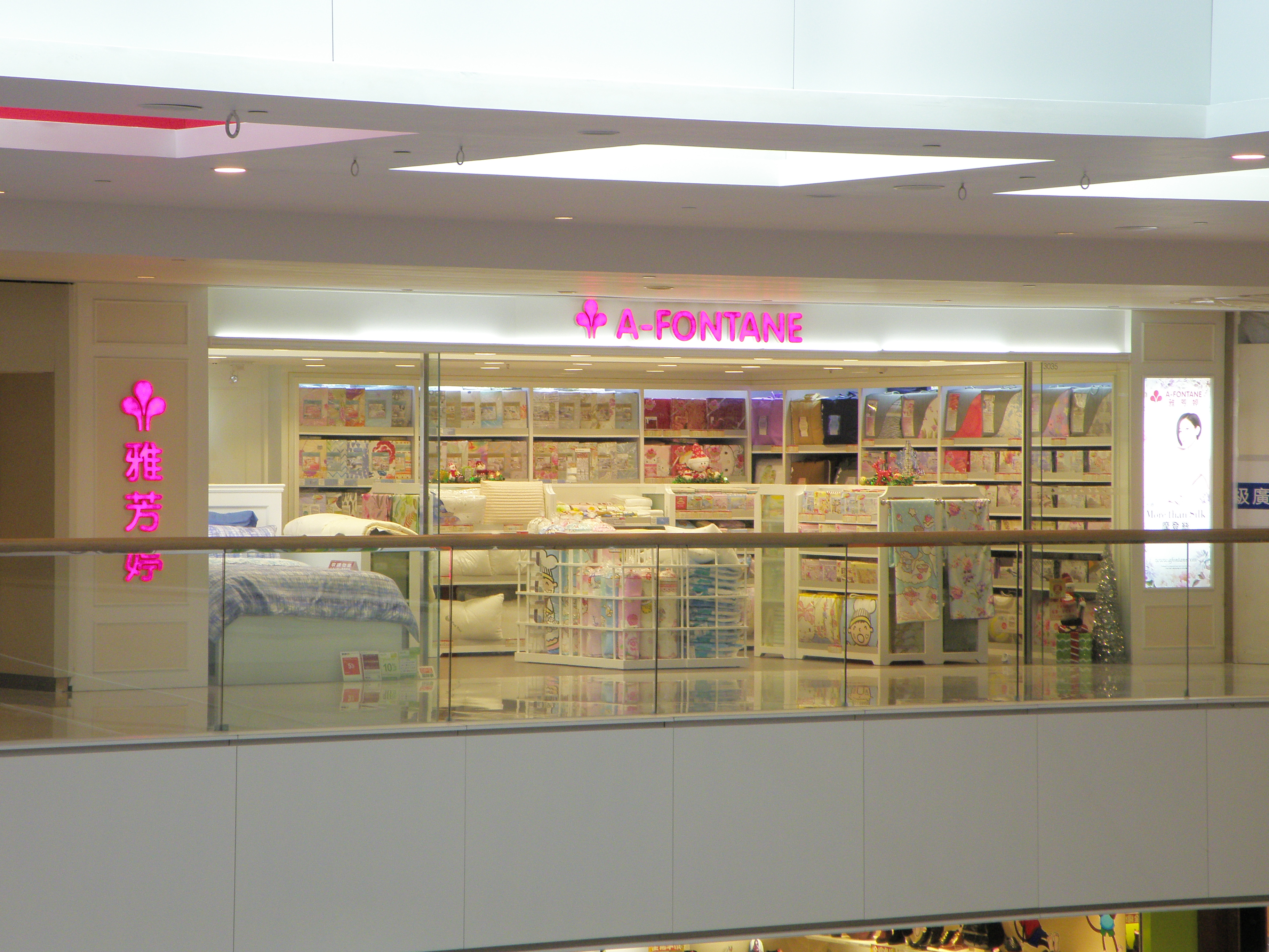 A-Fontane, Hong Kong.